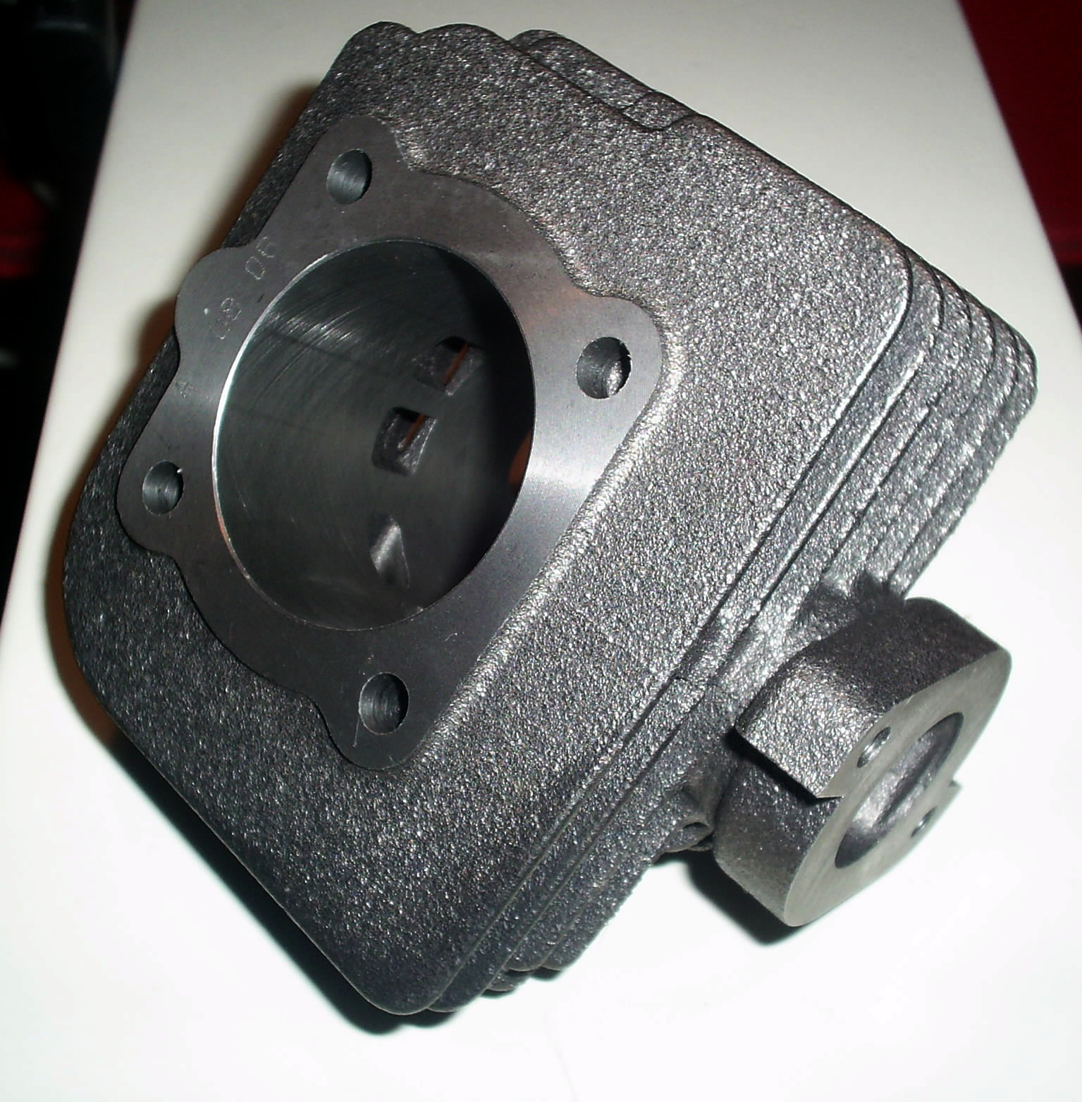 Bottom of a Malossi big-bore 70 cc cylinder for two-stroke Morini scooter engines (such as the Suzuki Katana AY50). Exhaust port poking out to the right. Picture taken and released into the public domain by User:Kallemax.